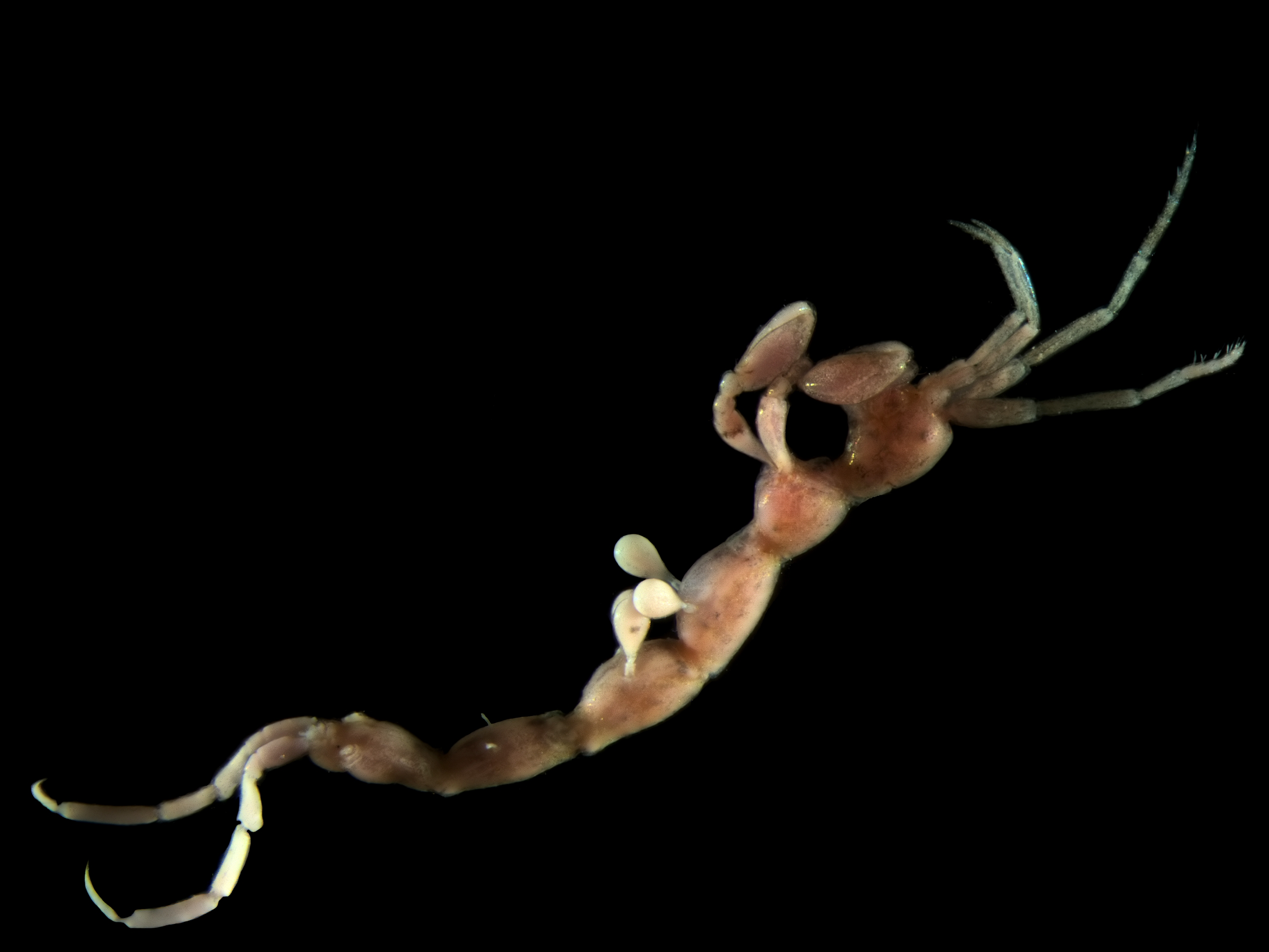 Male caprellid amphipod, taken with Leica DFC 490 camera mounted on a Leica M205C binocular microscope. From the Belgian part of the North Sea.